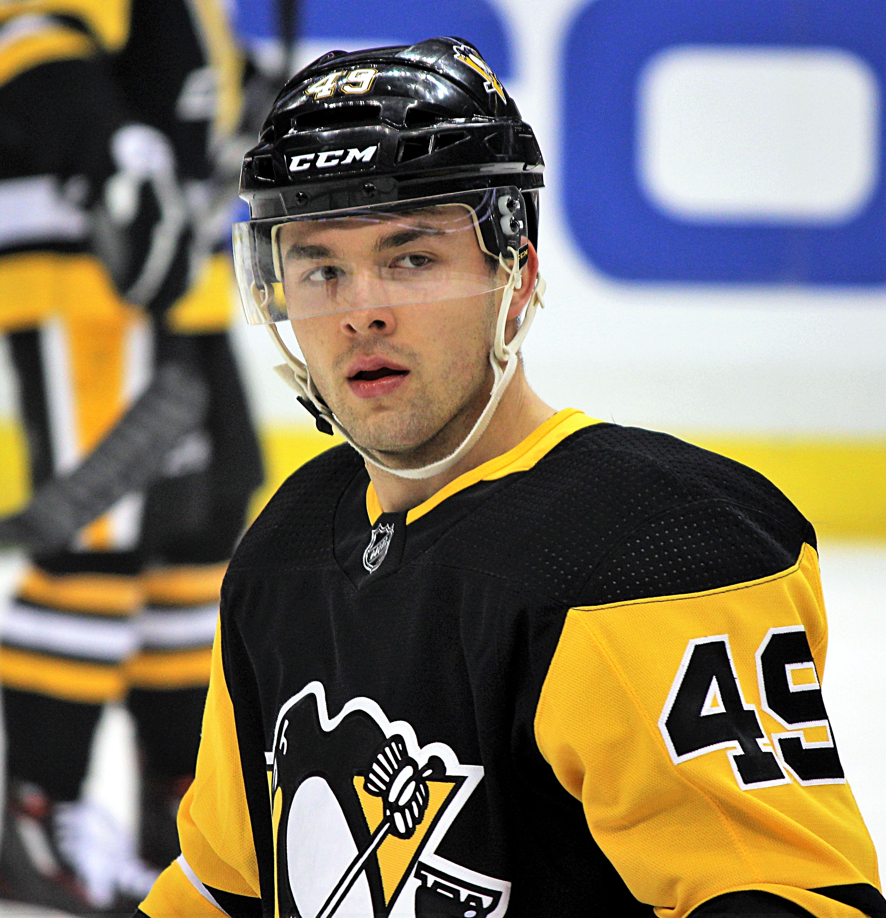 Pittsburgh Penguins forward Dominik Simon during a game against the Toronto Maple Leafs, December 9, 2017, at PPG Paints Arena in Pittsburgh, PA.